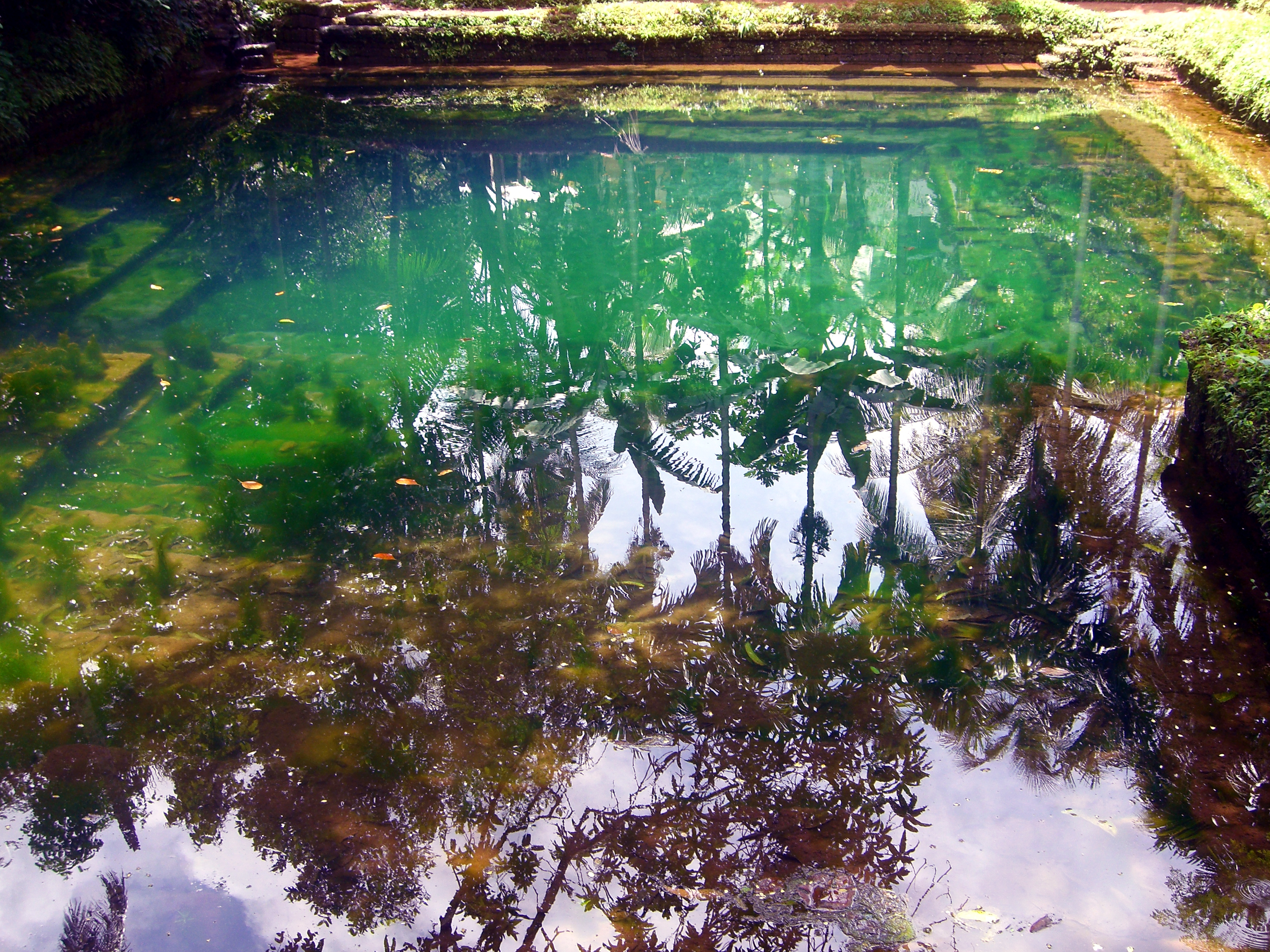 Neeliyaar Kottam Kulam - Punnakkulangara